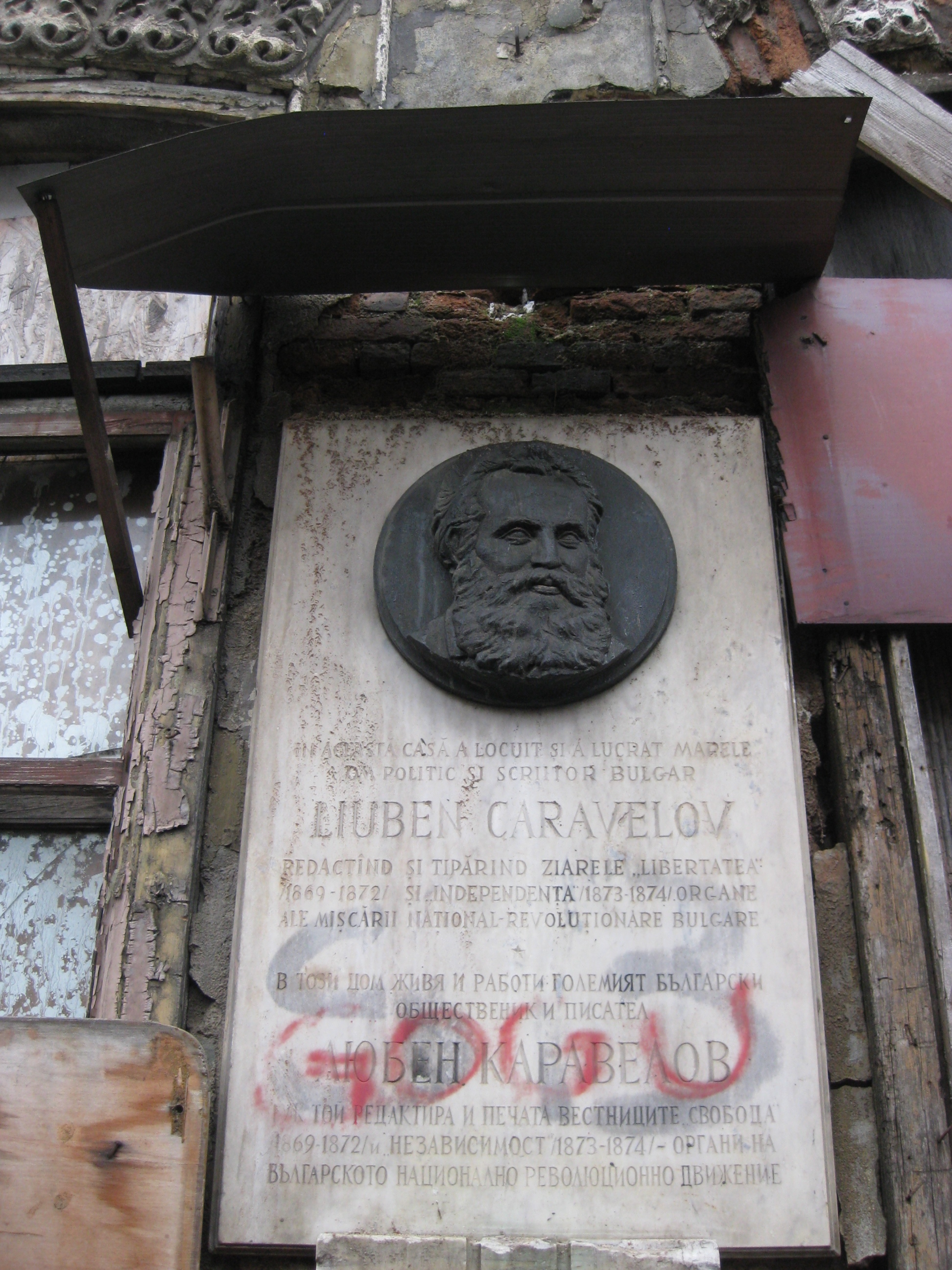 Bucharest memorial plaque of Lyuben Karavelov